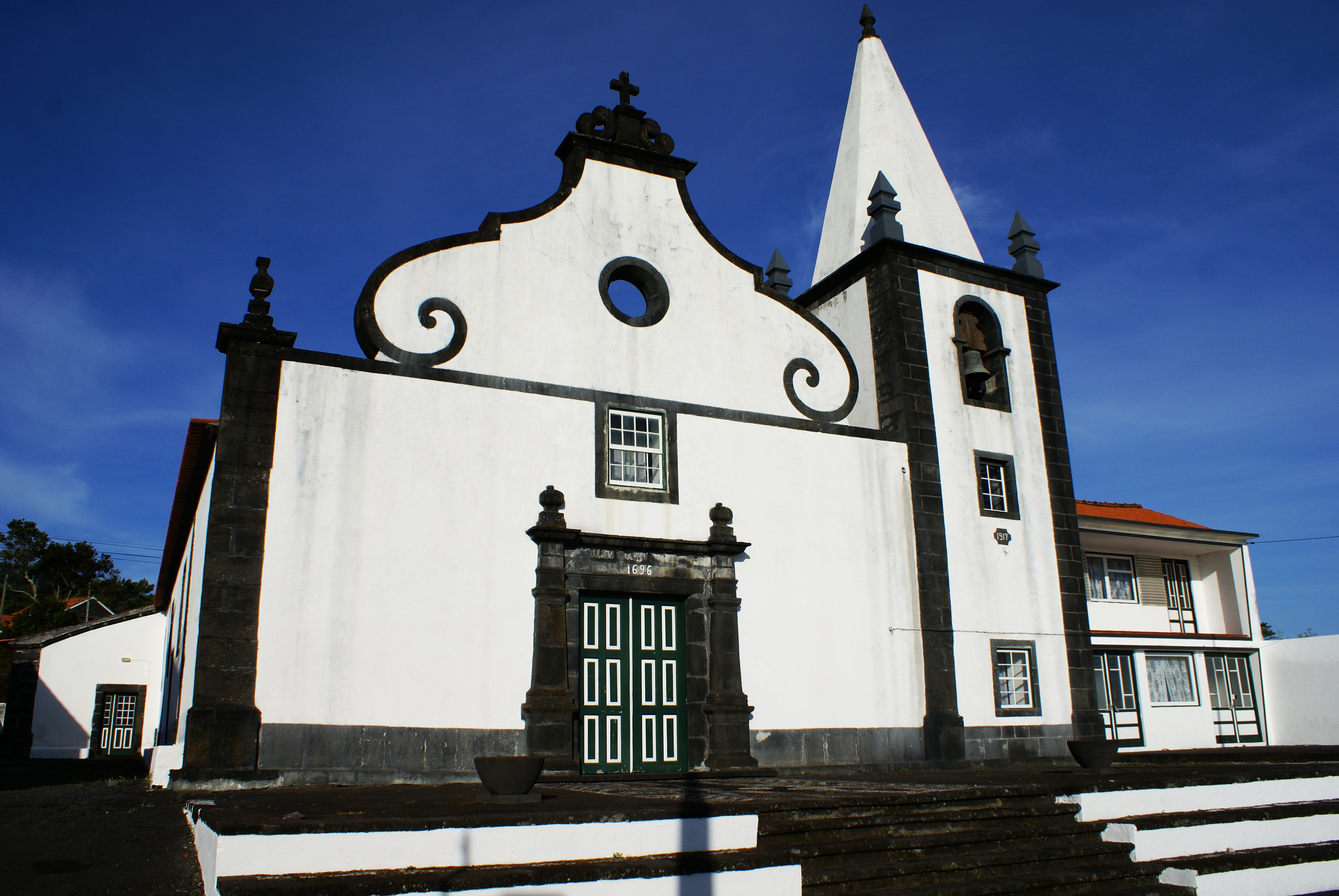 Igreja de Santo António, Santo António, concelho de São Roque do Pico, ilha do Pico, Açores, Portugal